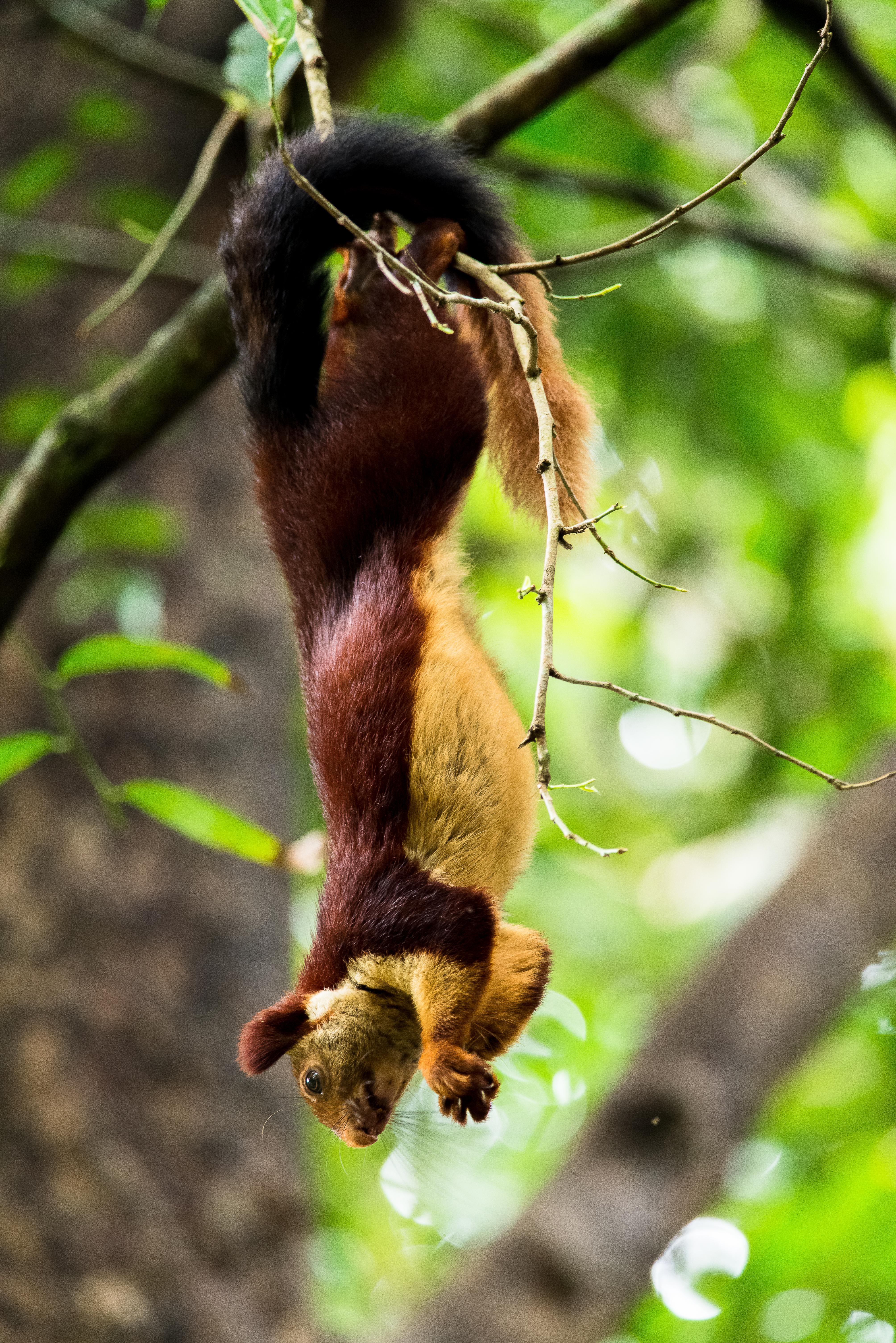 The Indian giant squirrel, or Malabar giant squirrel, (Ratufa indica) is a large tree squirrel species in the genus Ratufa native to India. It is a large-bodied diurnal, arboreal, and mainly herbivorous squirrel found in South Asia